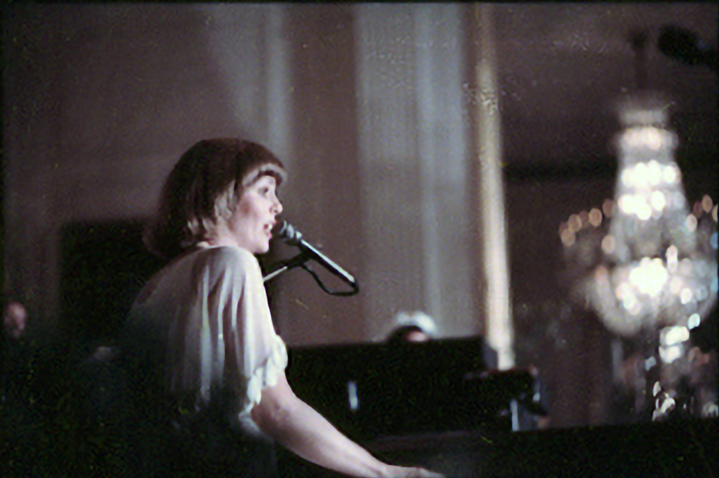 The photo contact sheet, identified as B0576 by the White House Photographic Office (WHPO), is housed at the Gerald R. Ford Presidential Library, a branch of the National Archives and Records Administration (NARA). This file is a 200 dpi photo contact sheet having images from roll of film B0576 of the August 9, 1974 - January 20, 1977 Gerald R. Ford White House Photographic Office Series A0001-A9999 and B0001-B2886 photographs. The date on the photo contact sheet is the date the roll of film was processed, not necessarily the date the photographs were taken. See table below for additional details.